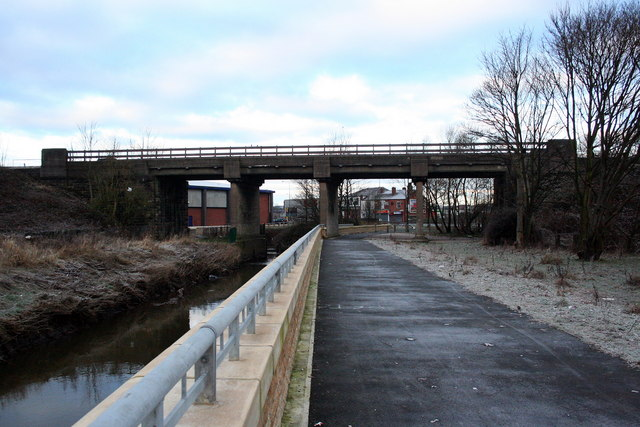 Adam Viaduct Adam Viaduct (built in 1946) near Wigan replaced the original (1848) Lancashire & Yorkshire bridge and carries the Wigan to Kirkby railway over the River Douglas. This is the first example in this country of a prestressed concrete viaduct carrying a railway. It has 4 spans of about 29' each, with 16 I-beams in each span. It was prestressed with the Freyssinet system. The advantages were claimed to be the speed of erection; ballasted track could be used and the heavier beams meant that the bridge was less lively. This bridge is still in use and has recently (1999) been listed by English Heritage.